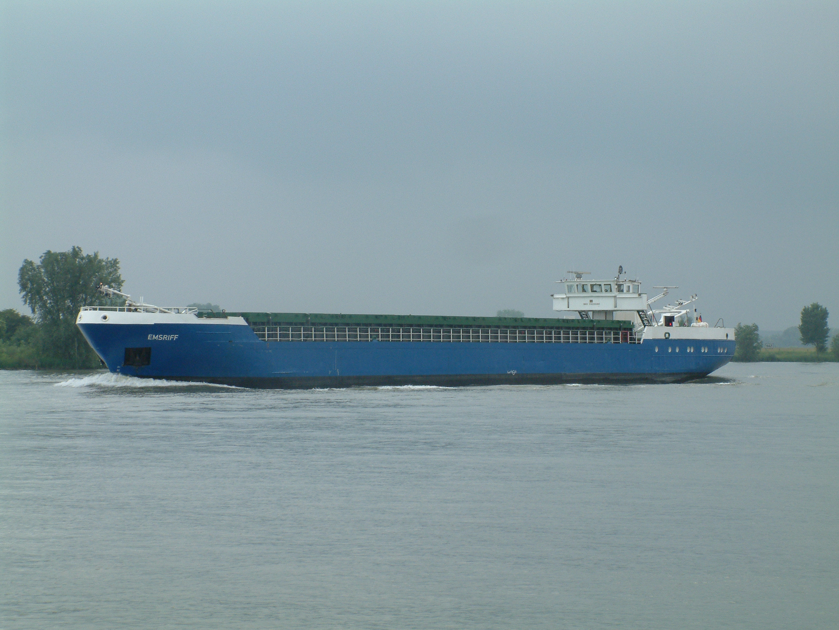 Coaster Emsriff